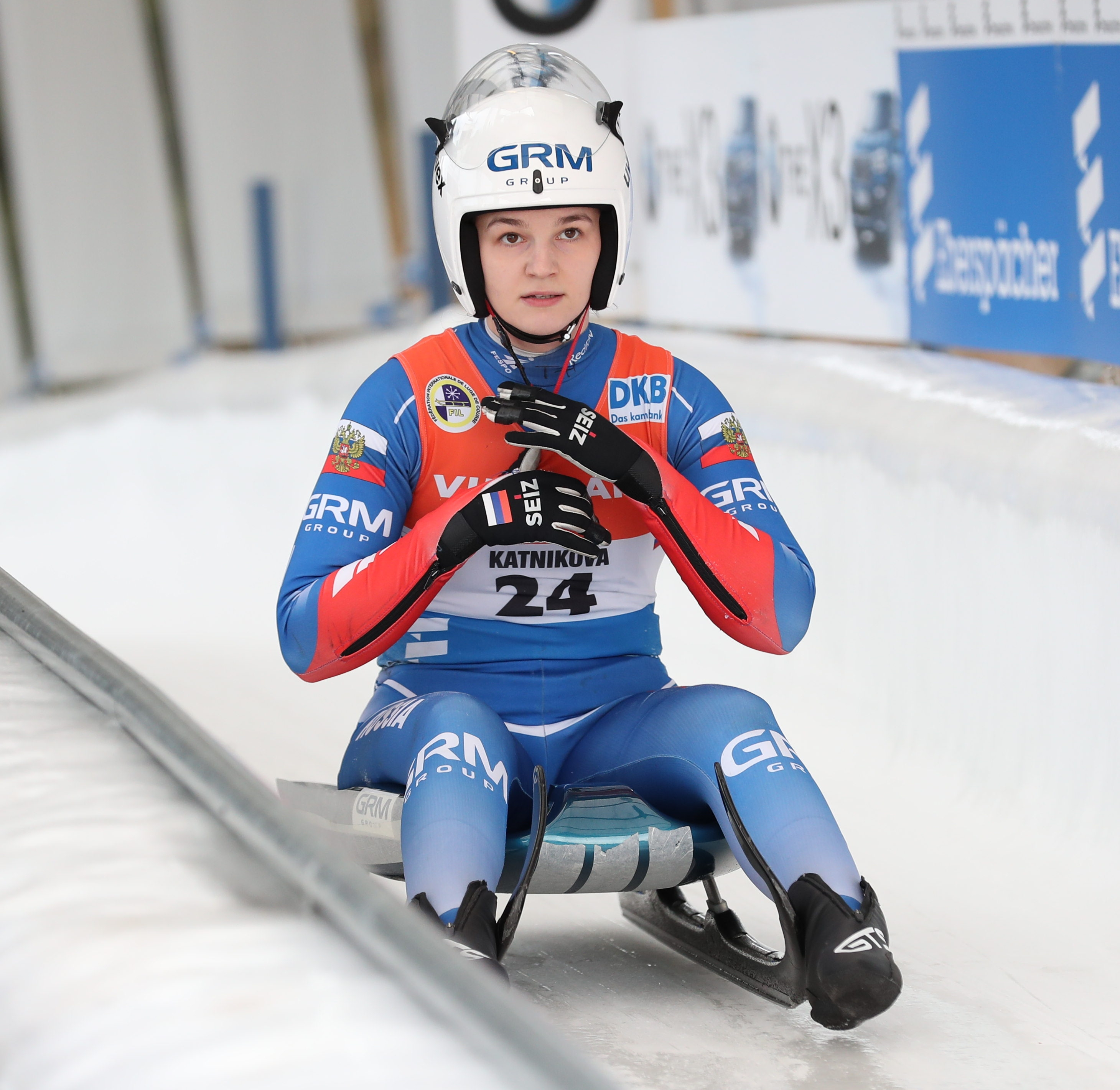 Training of the seeding groups at the 2019/20 Oberhof Luge World Cup